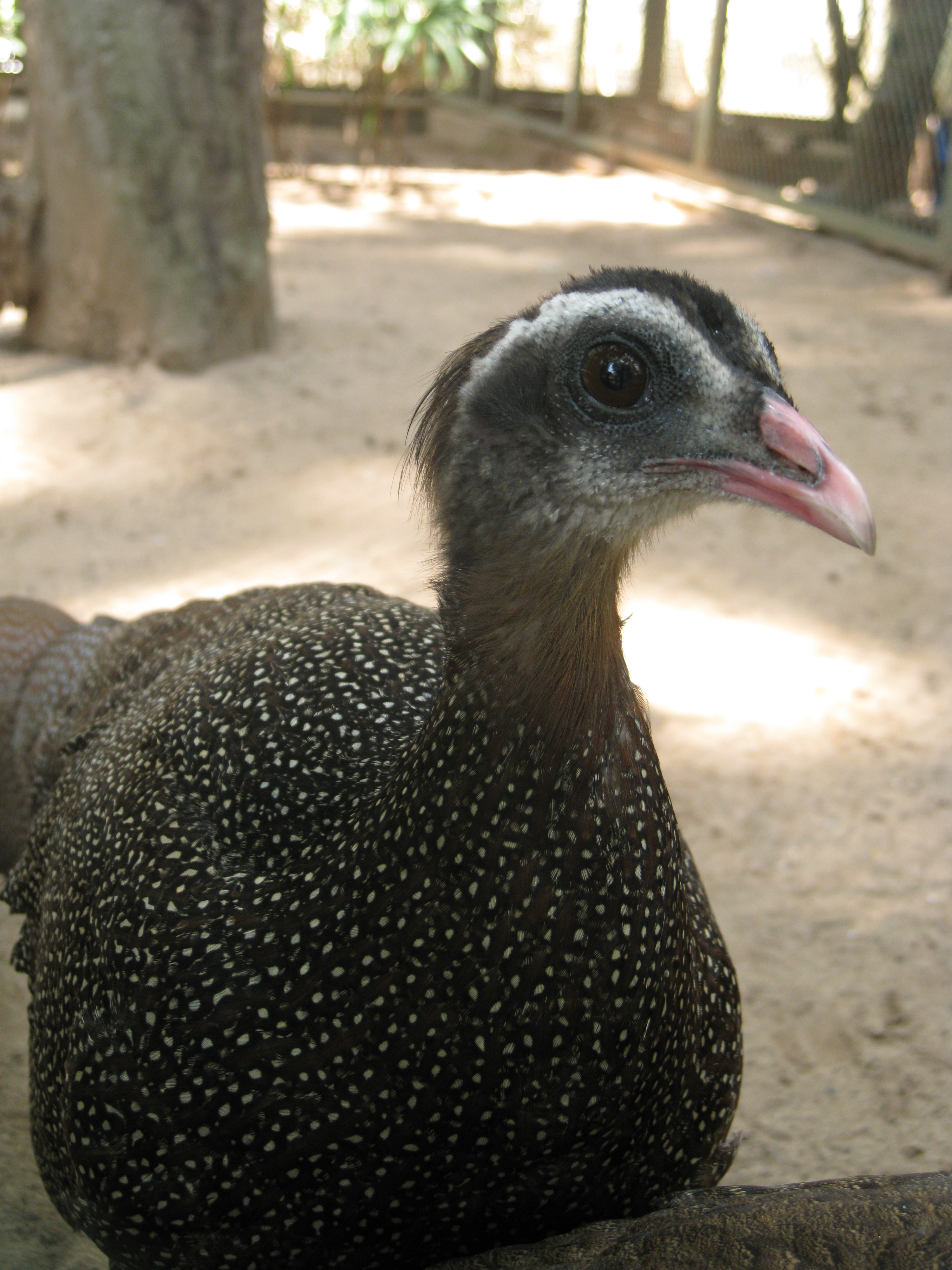 Rheinardia ocellata female, Saigon Zoo and Botanical Gardens.